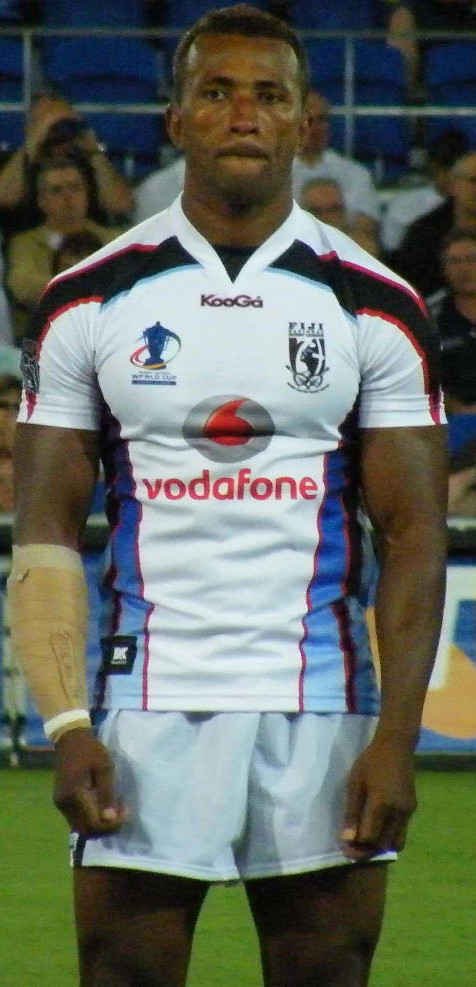 RLWC - Fiji v Ireland, Gold Coast 2008. Fijian winger Semi Tadulala.